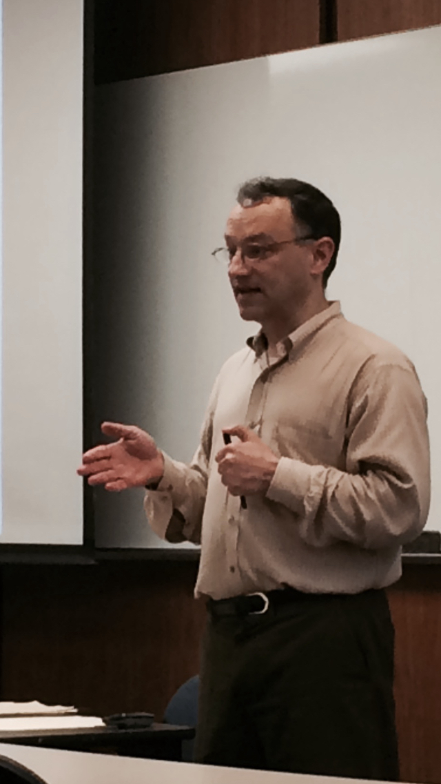 This is the image for the David O. Meltzer infobox